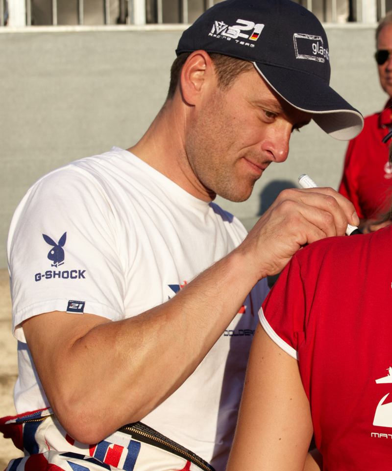 Matthias Dolderer signature session at Budapest